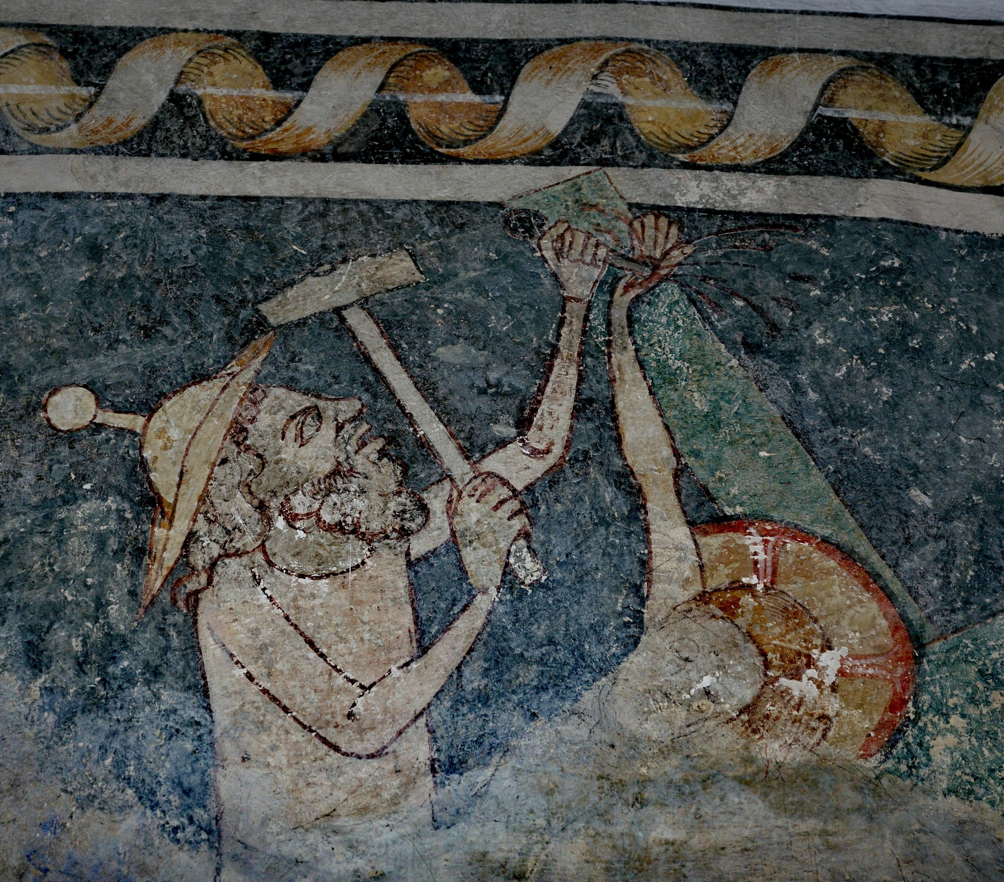 Wall painting, 14th century, detail crucifixion, chapel Katharinenkapelle, Landau in der Pfalz, district Südliche Weinstraße, Rhineland-Palatinate, Germany